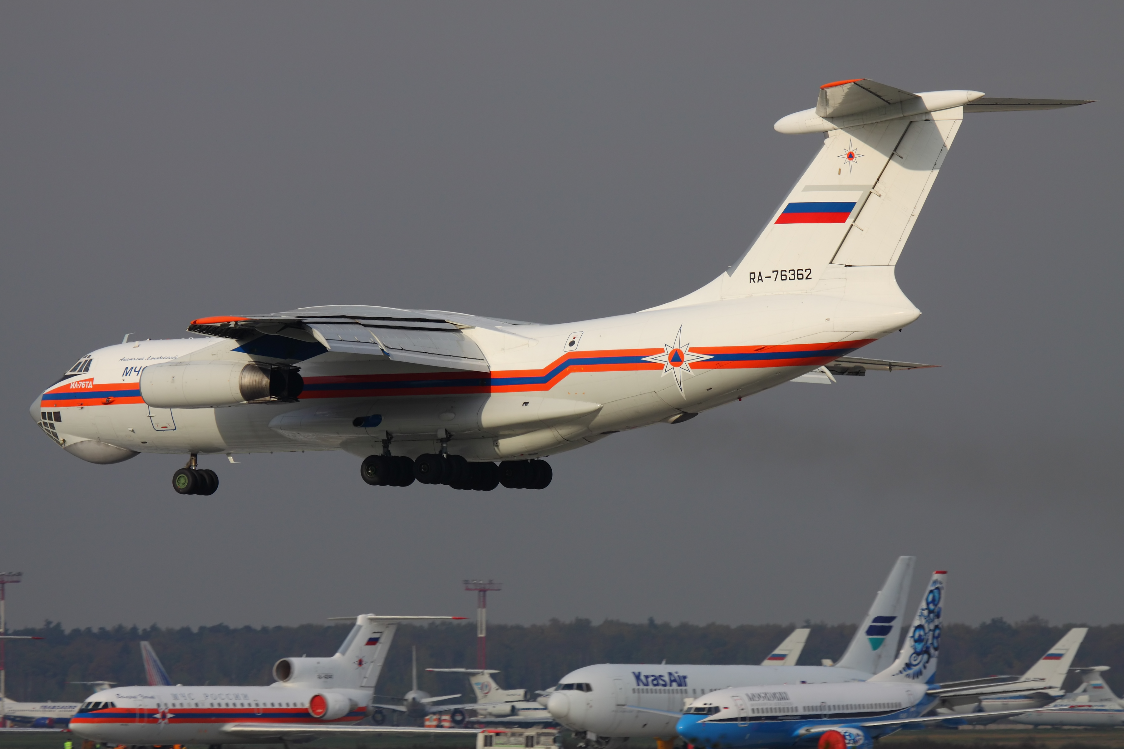 Ilyushin Il-76TD of Russian Ministry of Emergency Situations (MChS Rossii) on final approach to Moscow-Domodedovo airport. A company Yak-42 is visible on the apron. The airplane is named after Anatoly Lyapidevsky, the Soviet pilot and the first Hero of the Soviet Union.